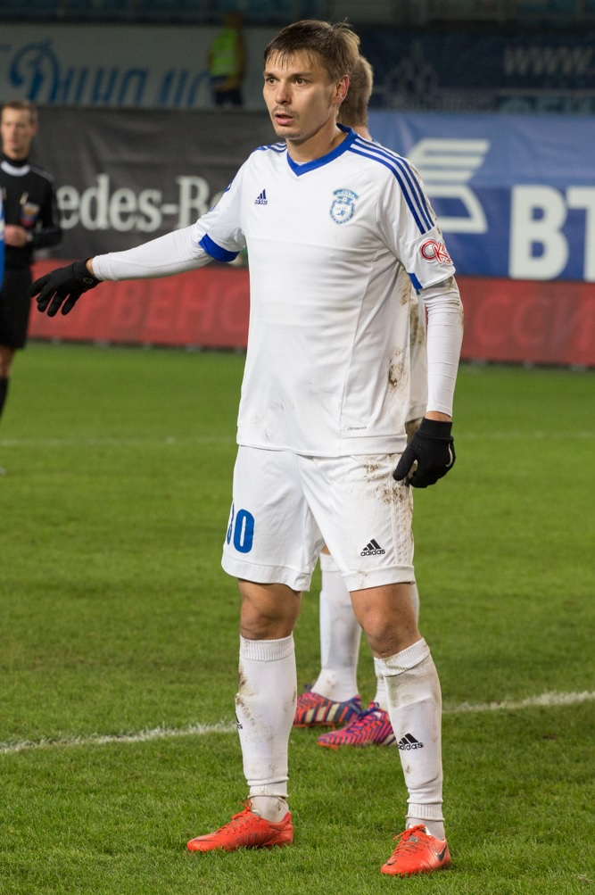 Andrei Vasyanovich with FC Sokol Saratov in a game against FC Dynamo Moscow.